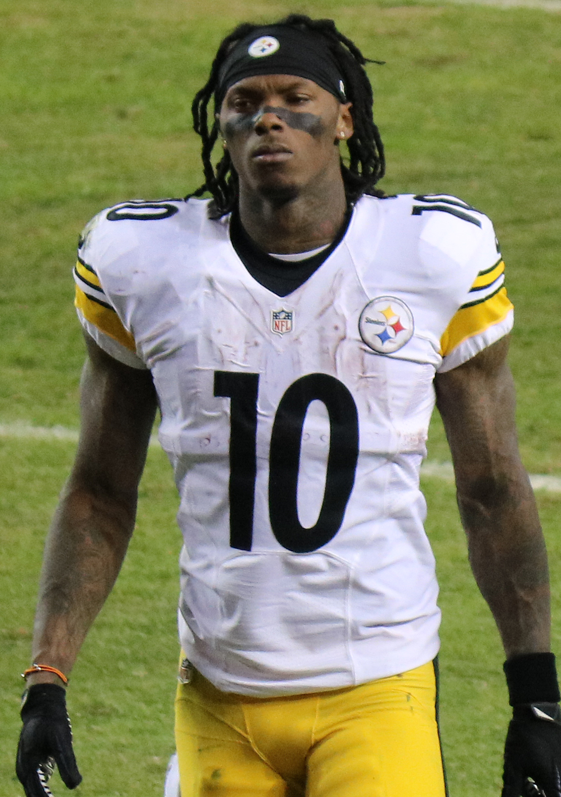 Martavis Bryant, a player on the National Football League.